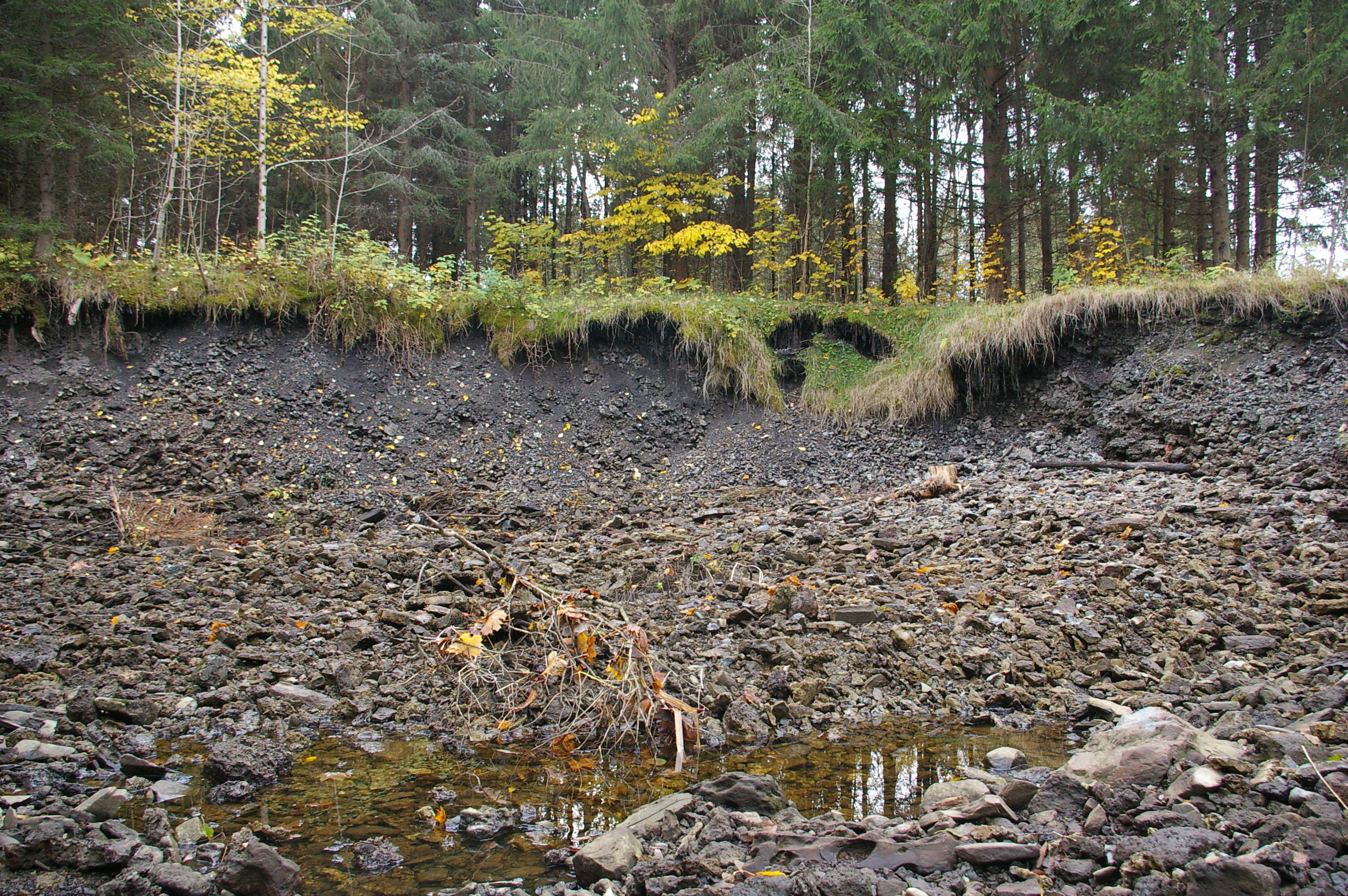 Slagheap from the smelting